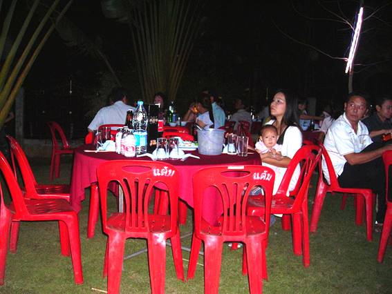 Single mother with child.